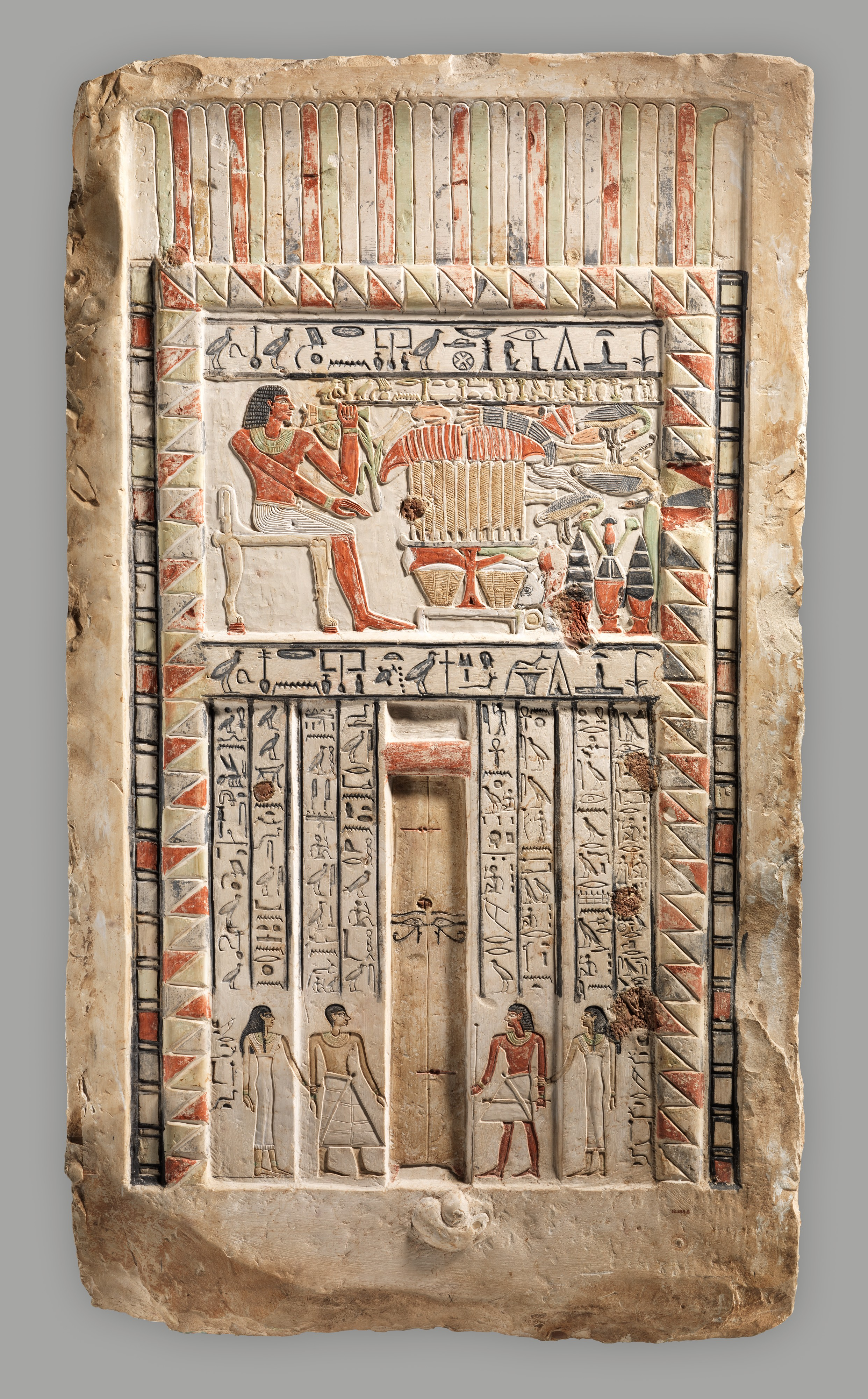 False door, Neferiu, Wedjebet